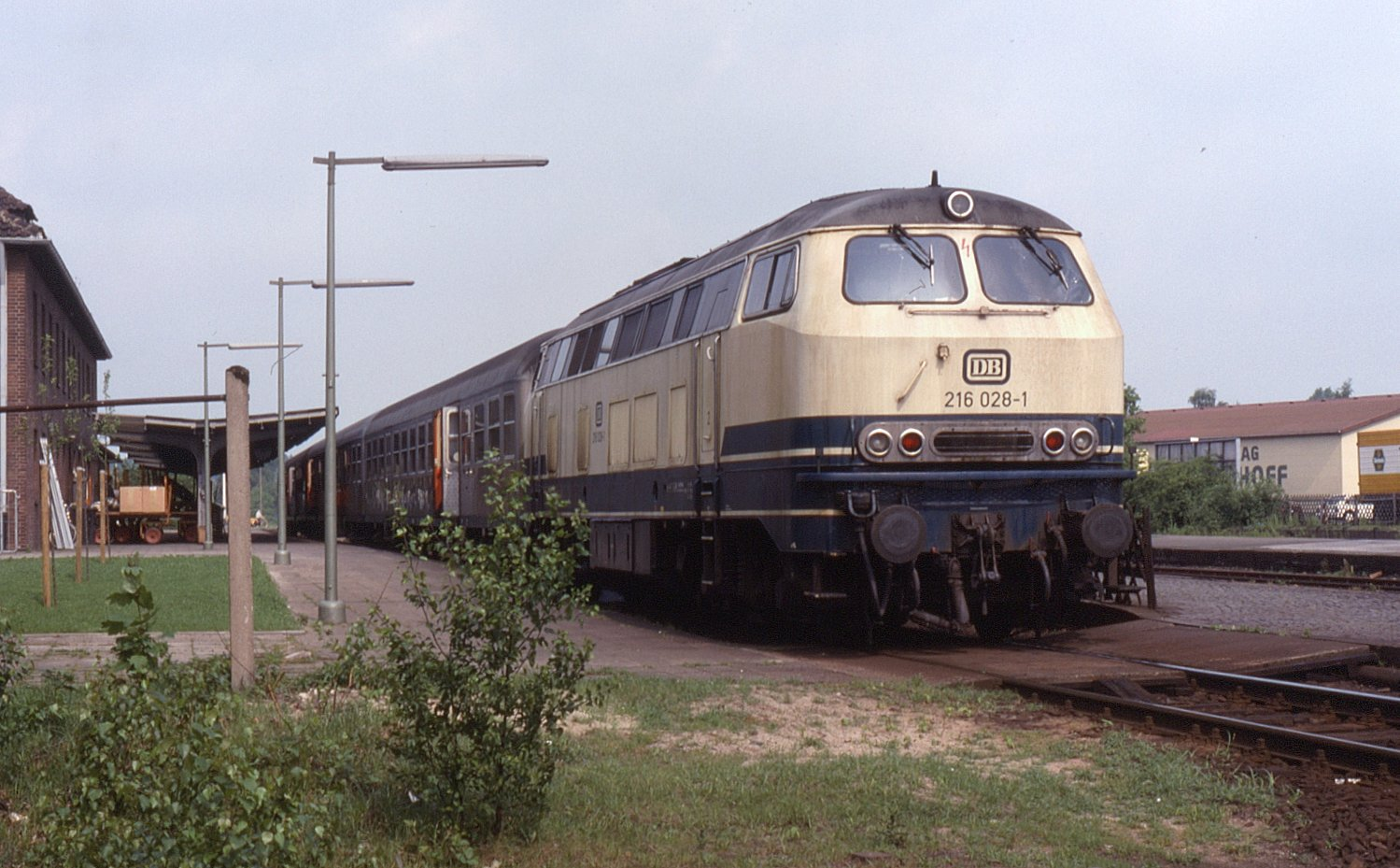 216.028 at the branch terminus of Borken on 11 May 1990 awaiting departure on the 11:36 to Bottrop Hbf.